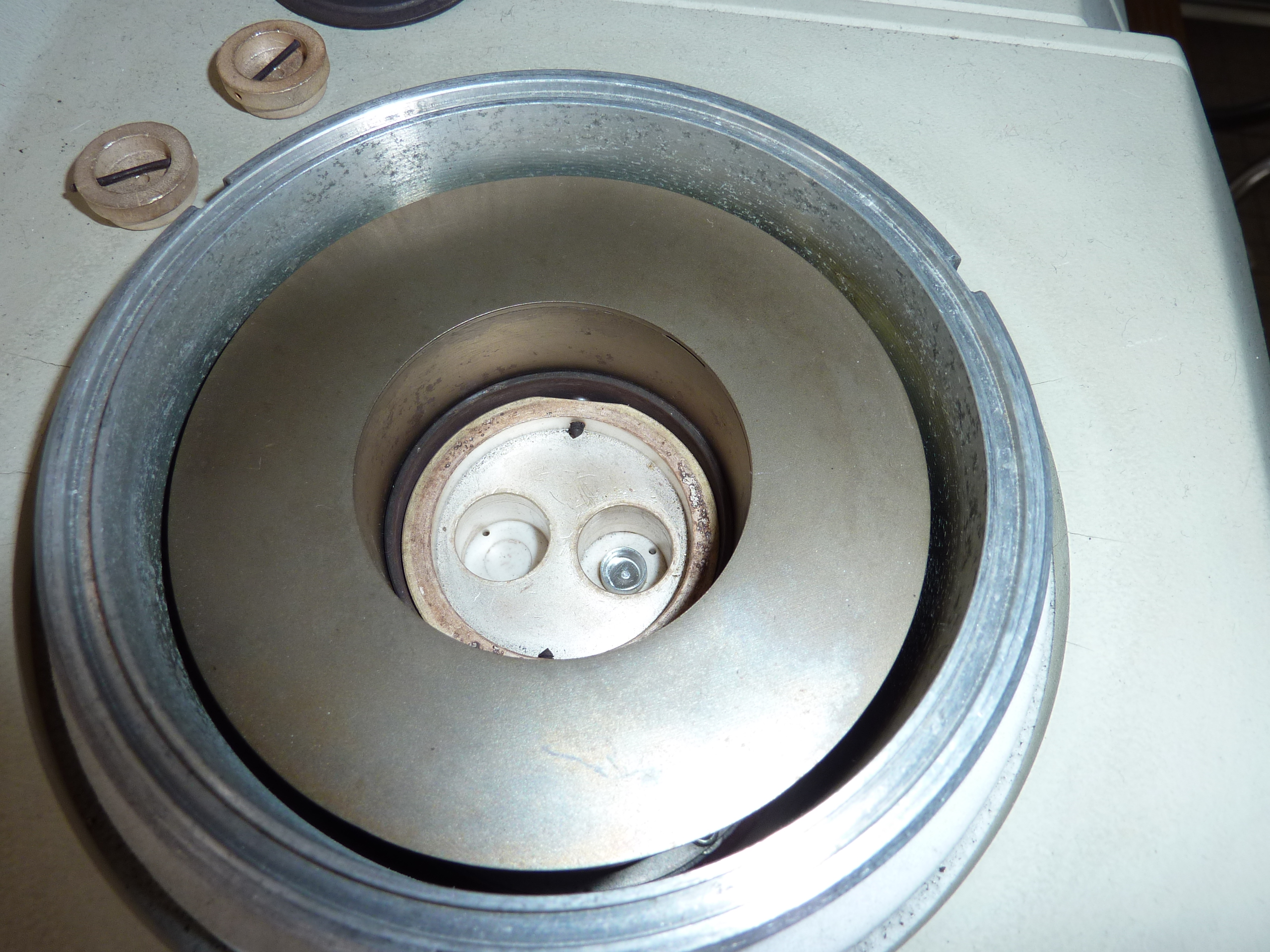 Photo inside the differential scanning calorimeter